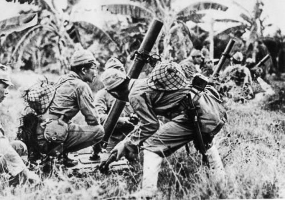 Special Naval Landing Force soldiers using a Type 97 81-mm-mortar during drill in Buna Gona, 1942